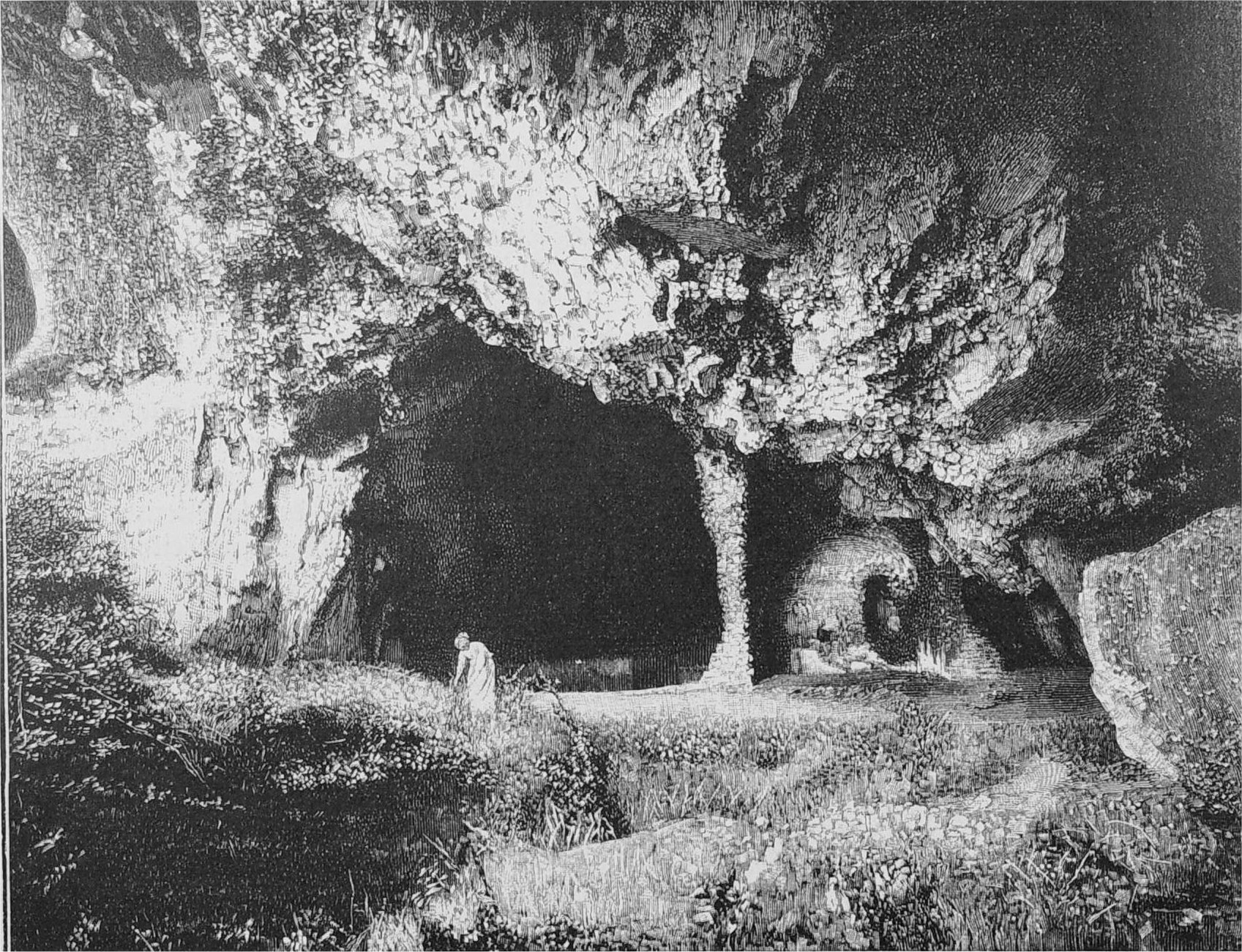 The Mitras cave at Capri island